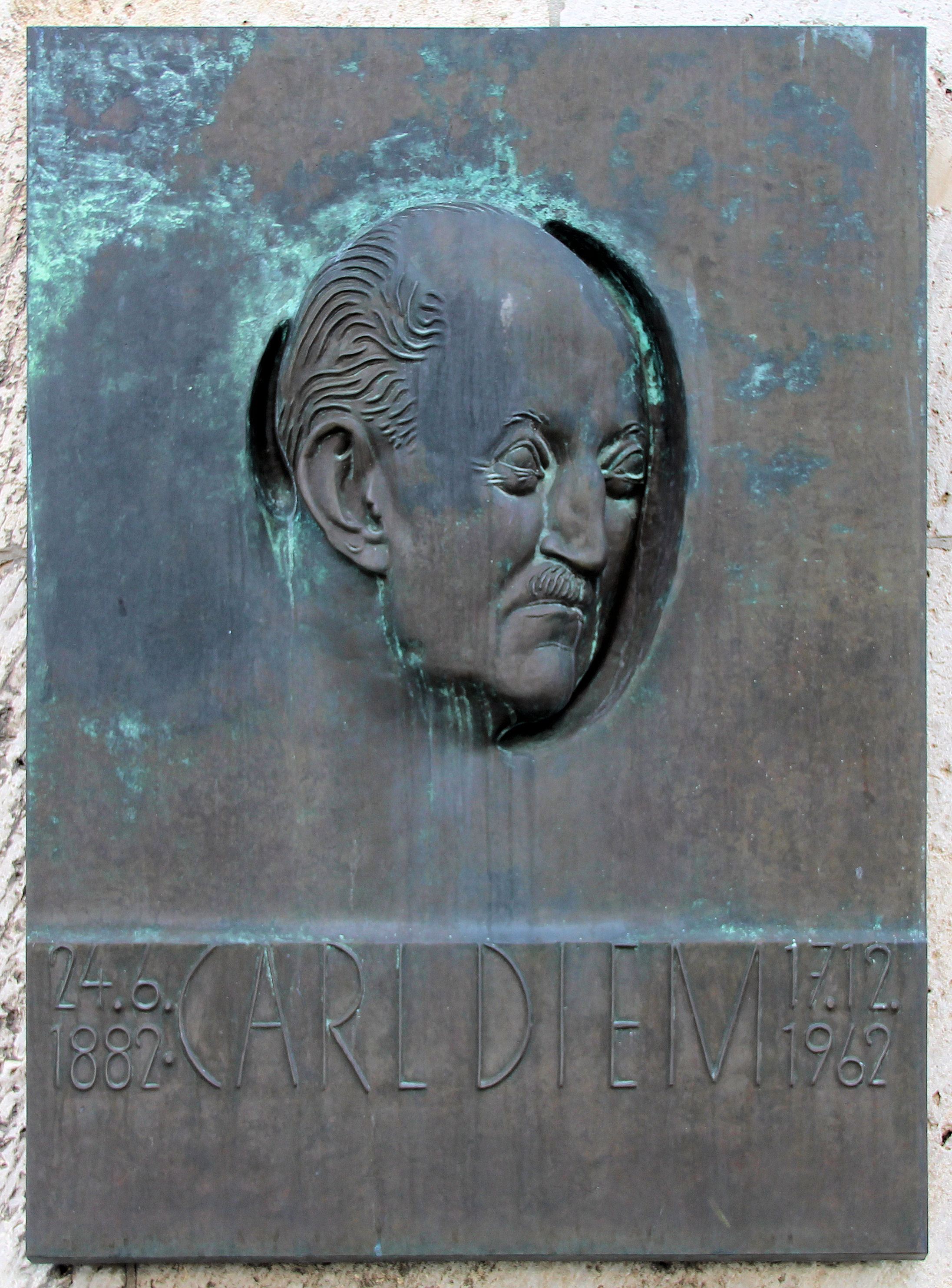 Memorial plaque, Carl Diem, Olympischer Platz 4, Berlin-Westend, Germany Koordinate:52°30′54″N 13°14′34″E / 52.515°N 13.24278°E